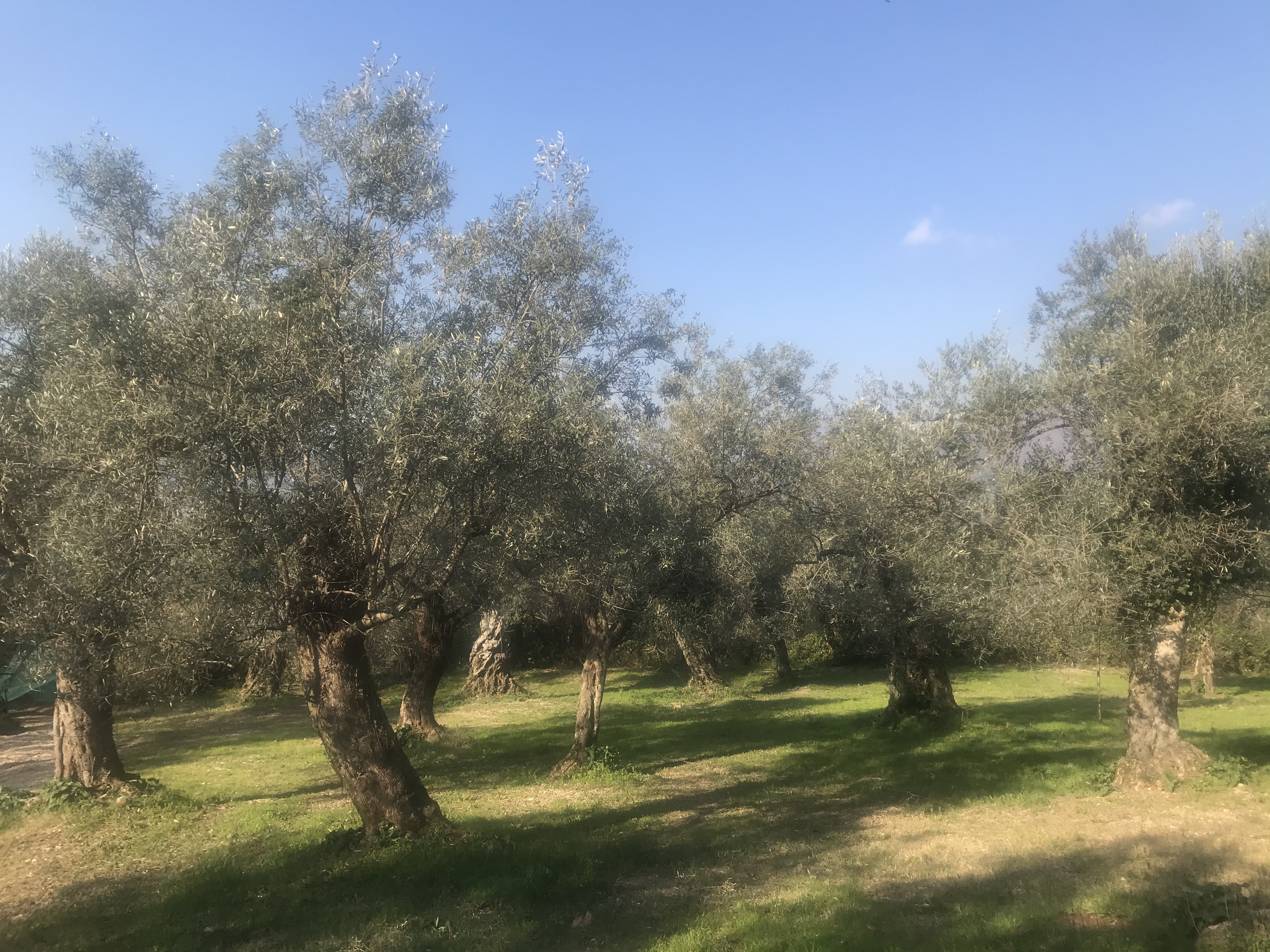 olive grove town Ornito Italy